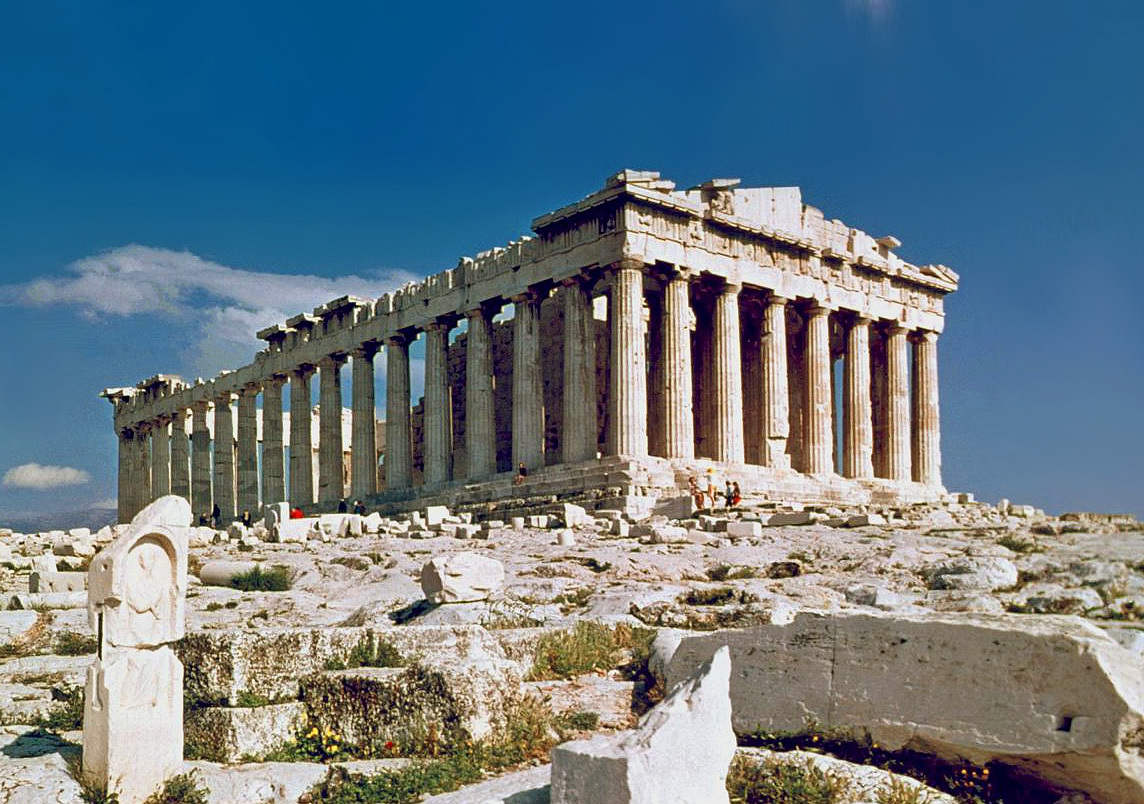 Parthenon, Athens Greece. Photo taken in 1978.